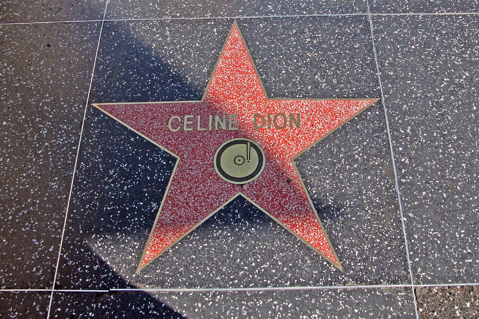 Celine Dion's star on the Hollywood Walk of Fame